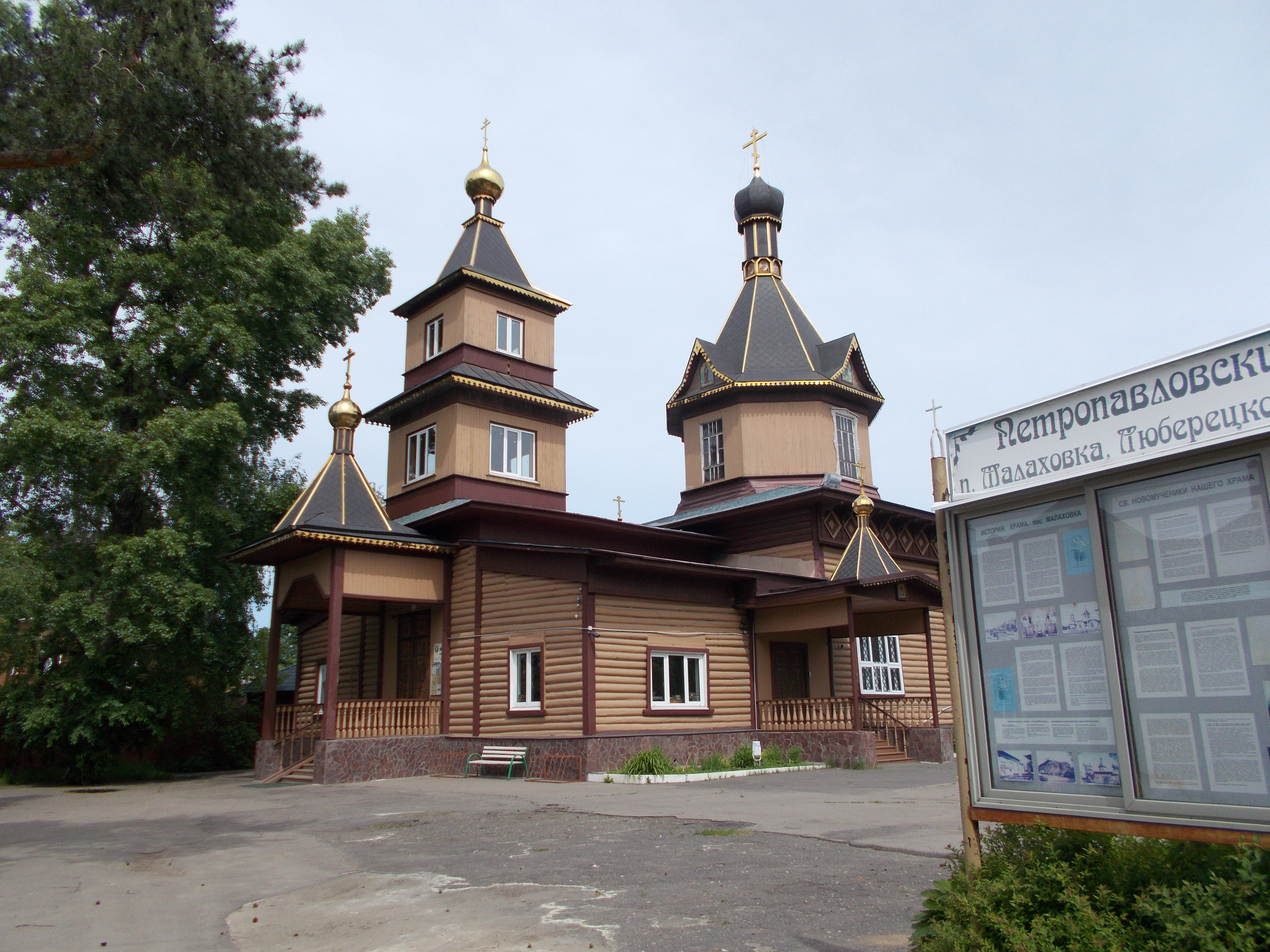 Ortodoxal church in town Malakhovka (Moscow Oblast)